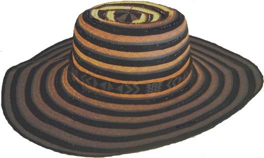 Image of Colombian hat "sombrero vueltiao"